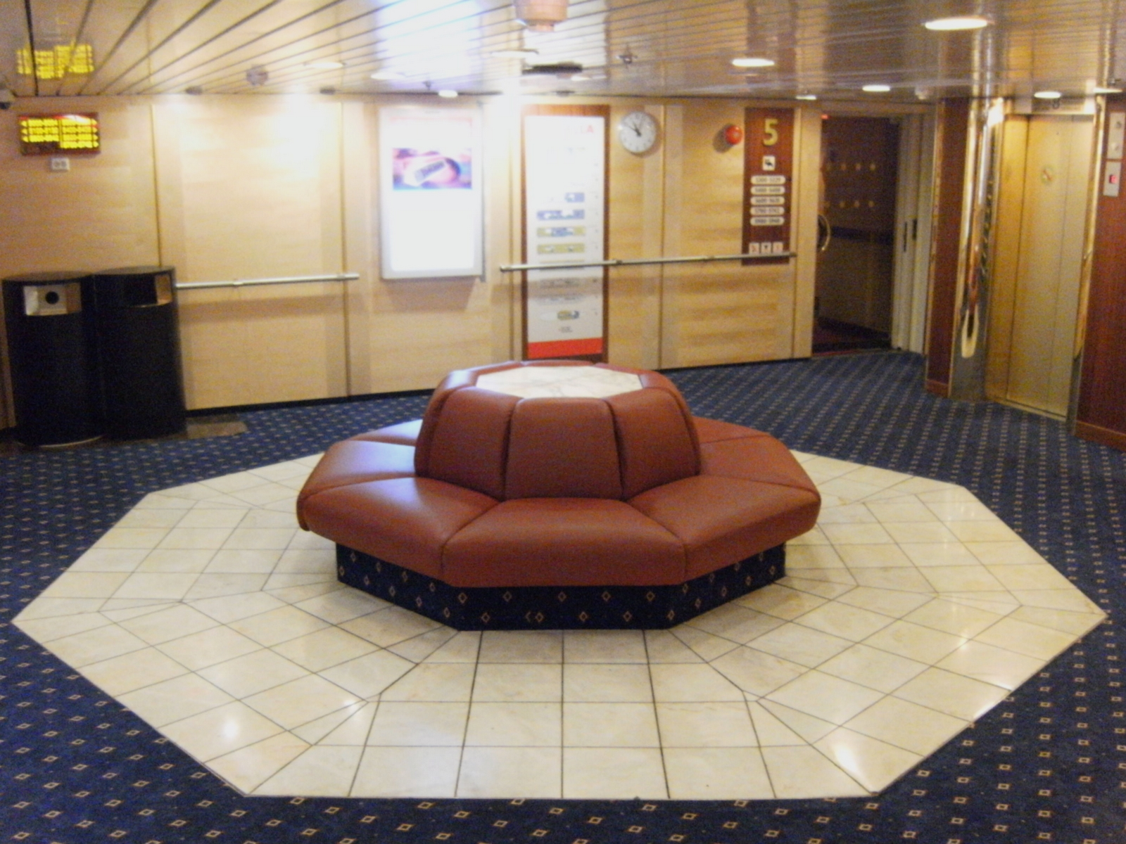 Viking Line MS Mariella (built 1985), octagonal borne-shaped seat